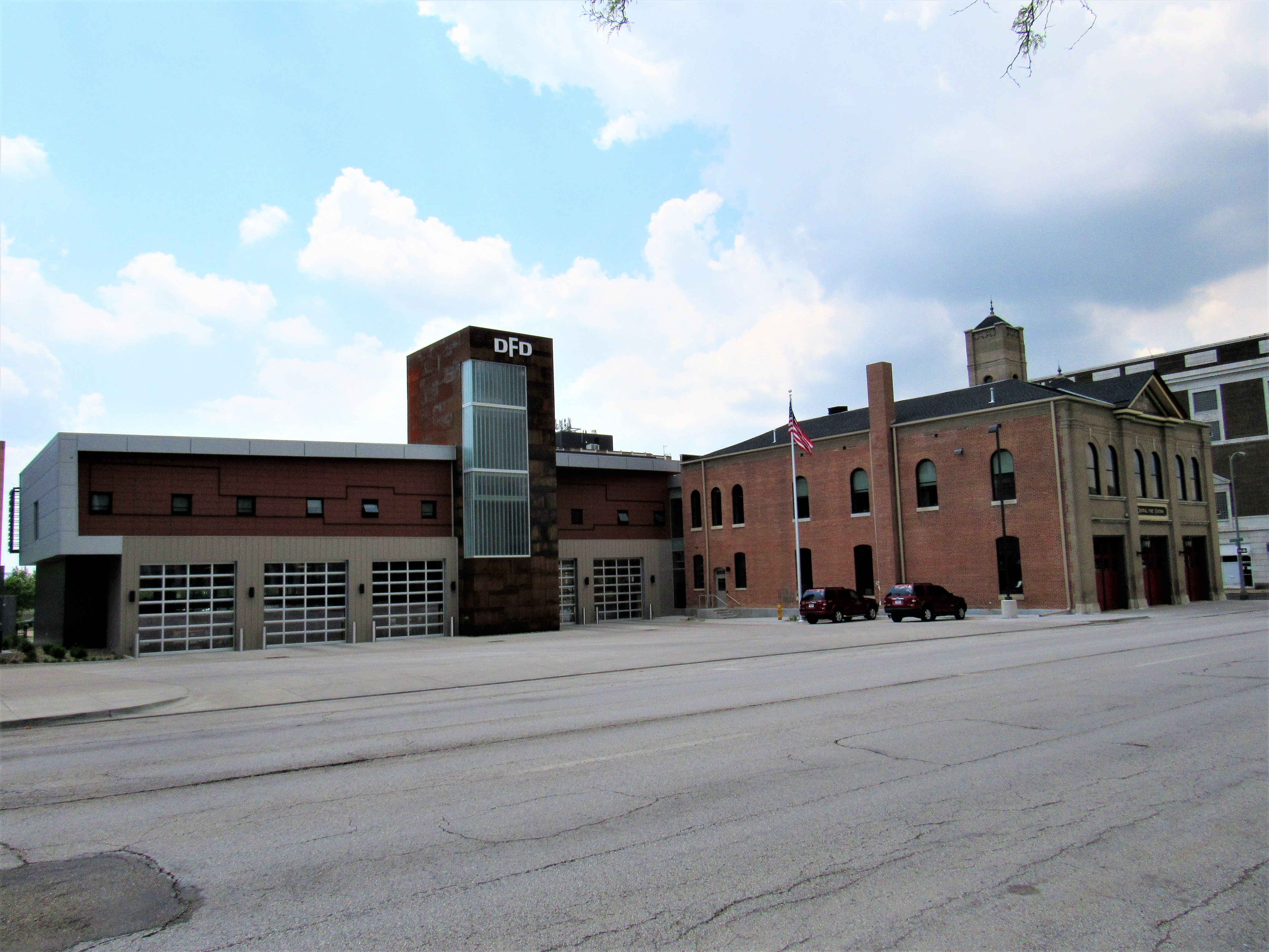 Central Fire Station in Davenport, Iowa.